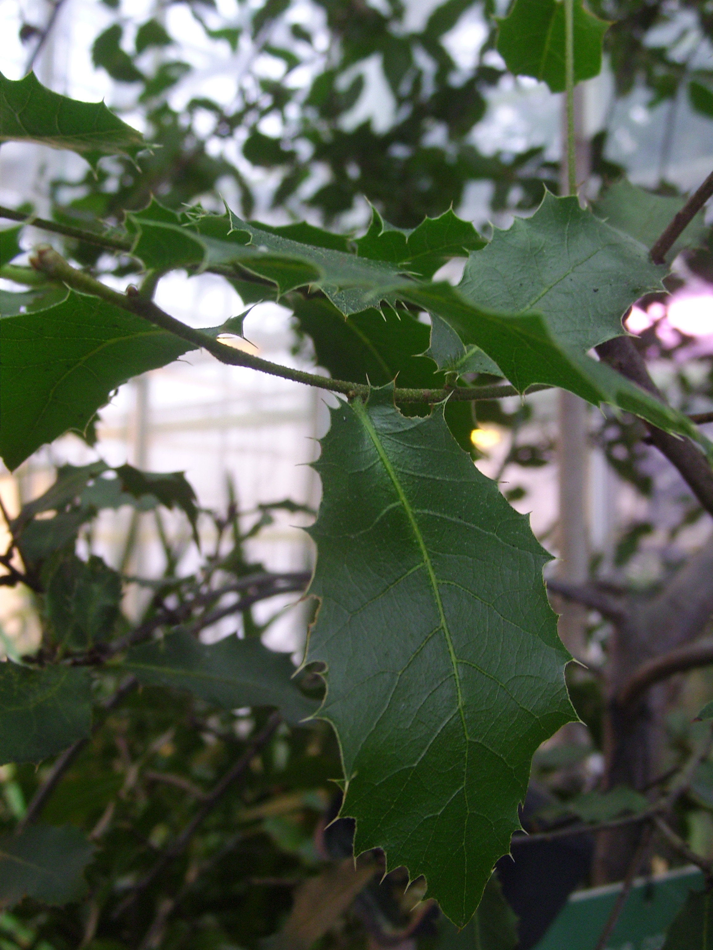 Quercus coccifera leaves